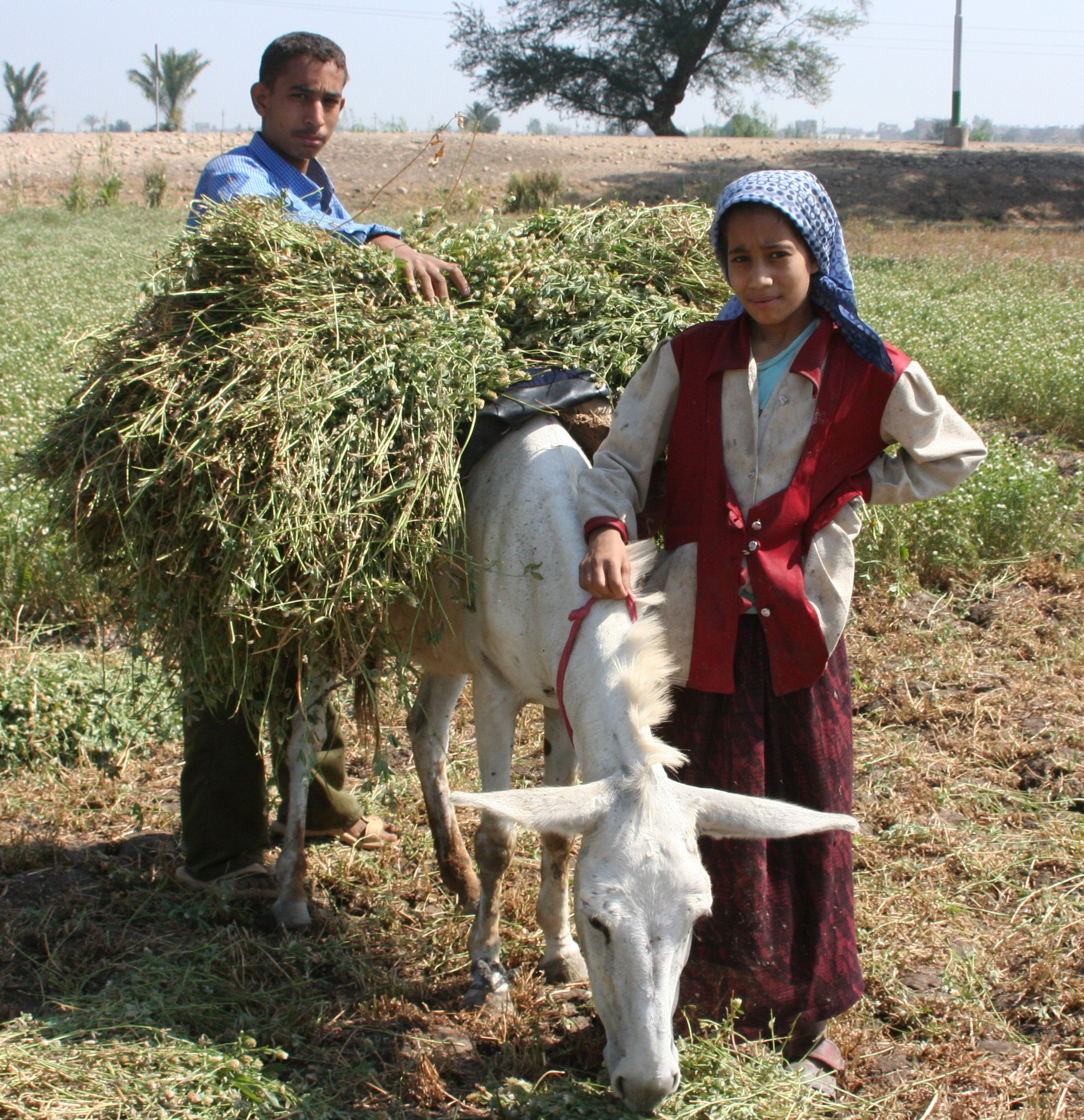 Egypt: Young Boy and Girl Harvest Farm Crops. USAID-funded agricultural programs have assisted farmers to increase their crop production.